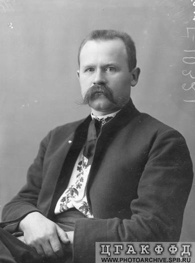 Petro Mershchiy, Ukrainian peasant, a member of the Fourth Russian State Duma, 1913-1917